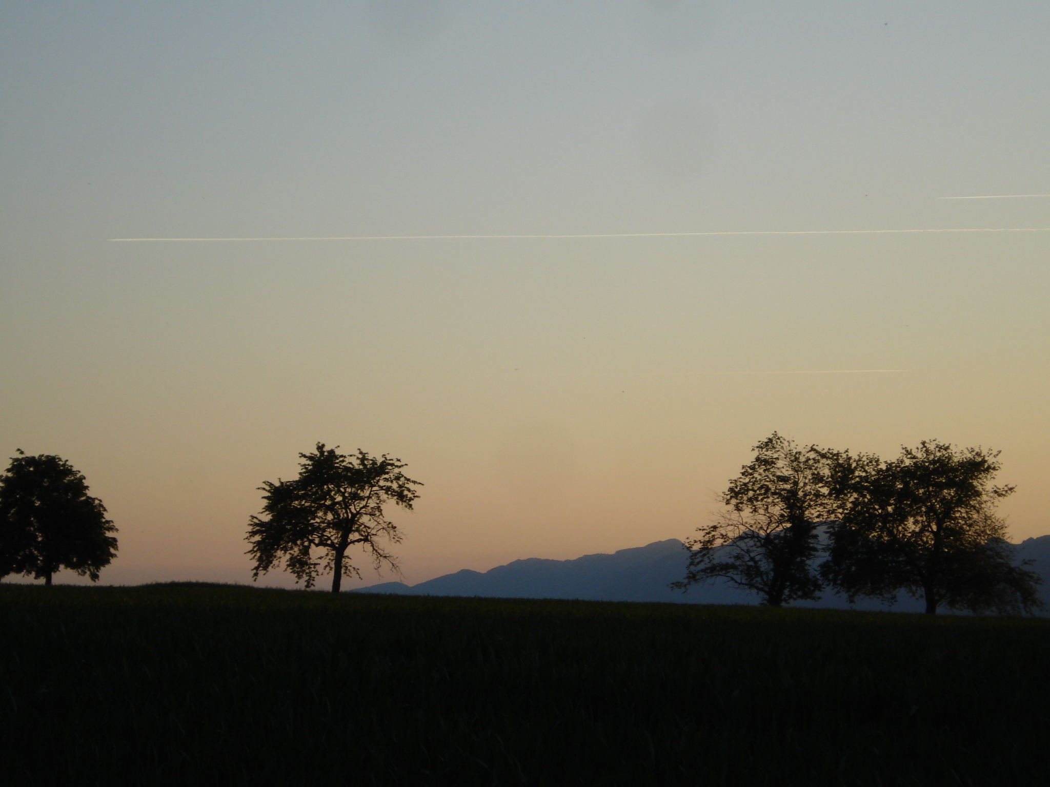 Landscape